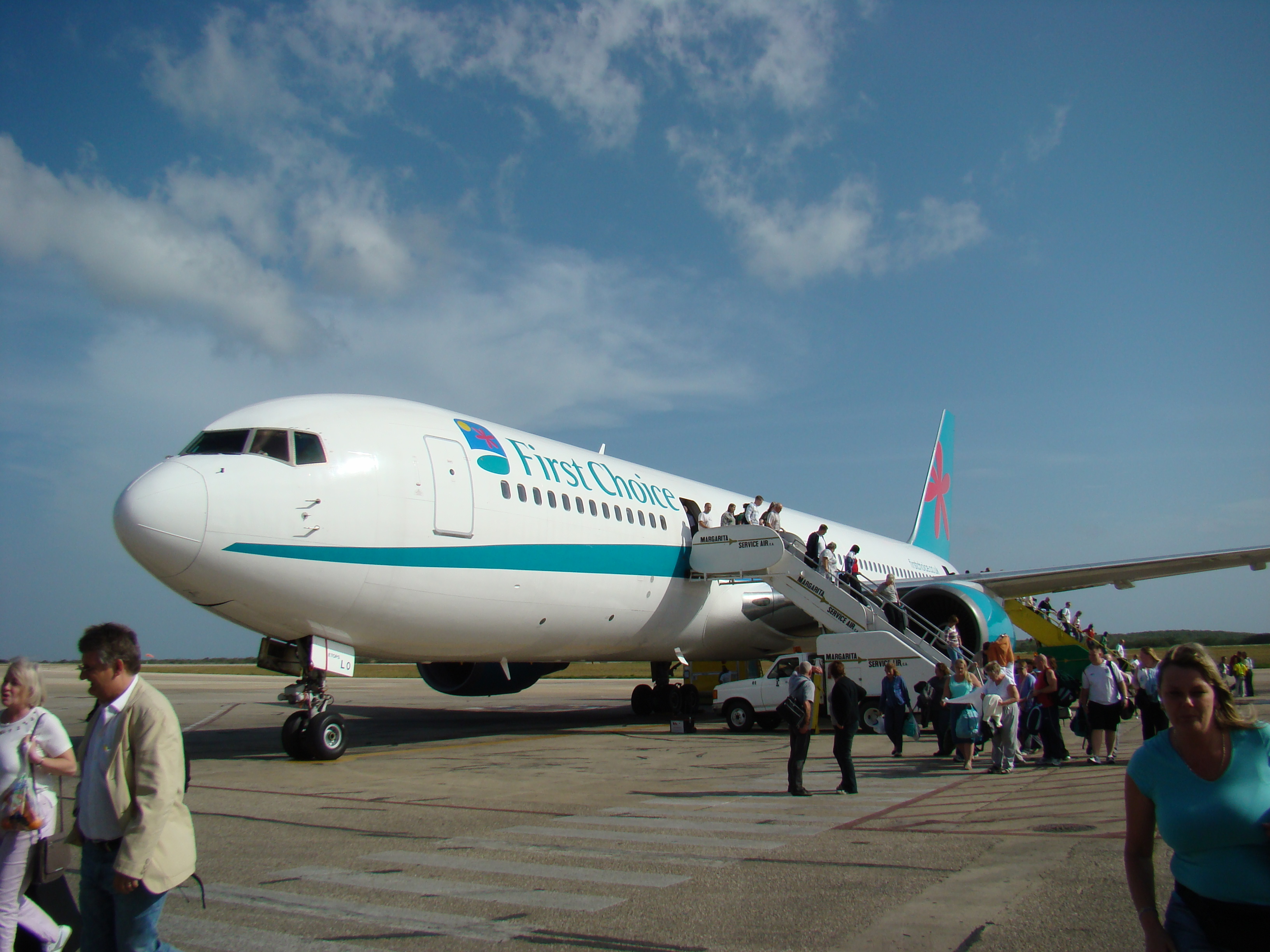 First Choice Ai767 landed at Margarita airport Del Caribe International Airport.